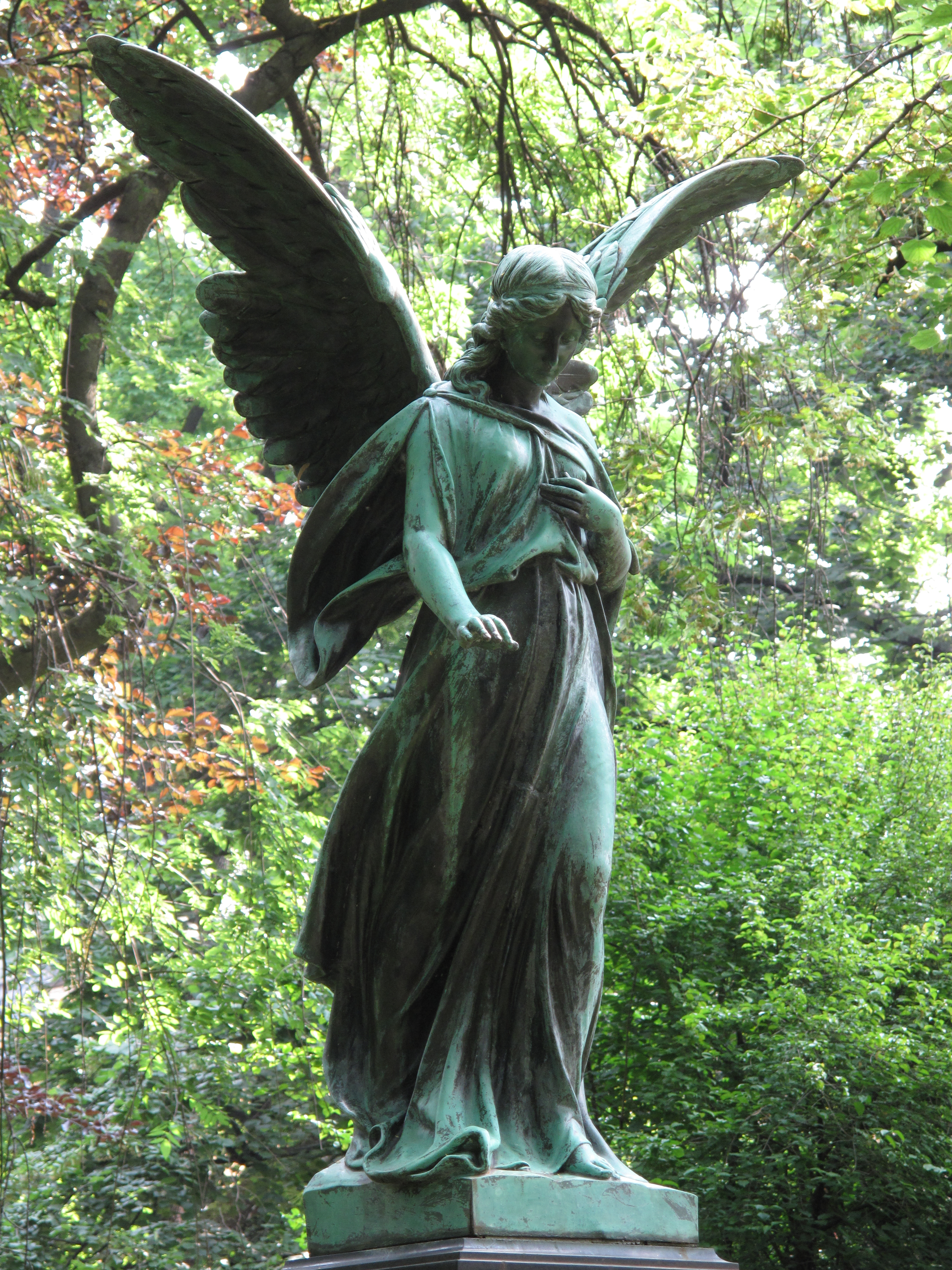 Angel statue in the old north cemetery (Alter Nordfriedhof) in Munich (Maxvorstadt).